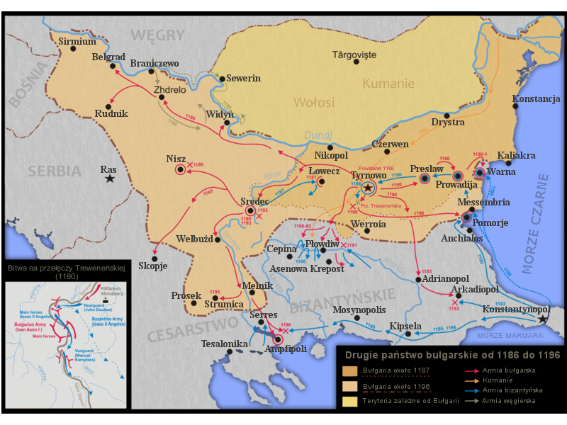 Second Bulgarian Empire from 1185 to 1196 under the rule of tsar Peter IV and tsar Ivan Asen I.